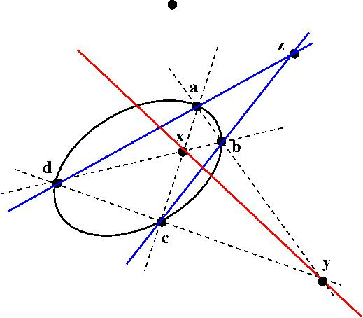 Construction of polar via secants to conic section.